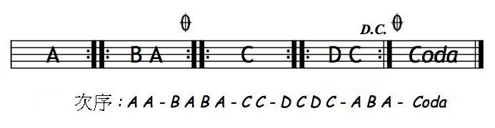 Description of the music term Da Capo. Original version: Image:Structure 2.jpg